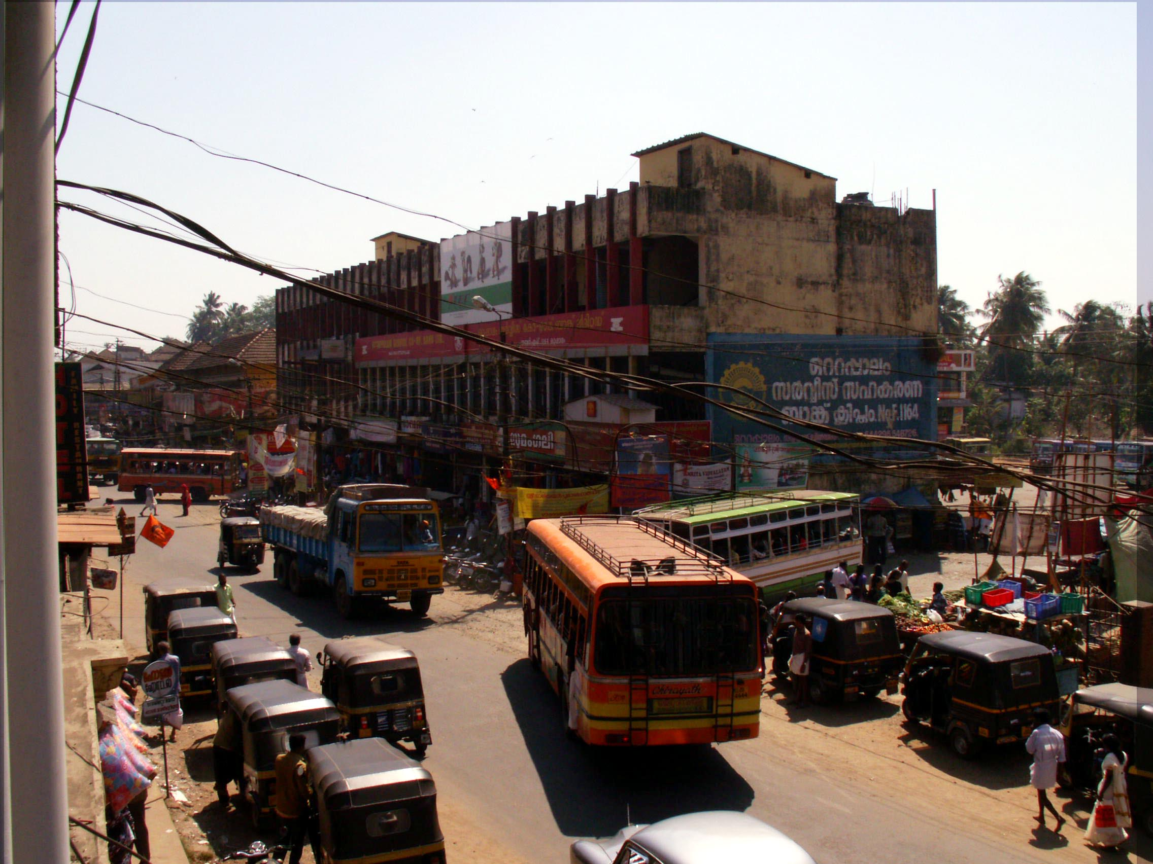 Ottappalam bus station. Author: Rajesh Nambiar Ottapalam